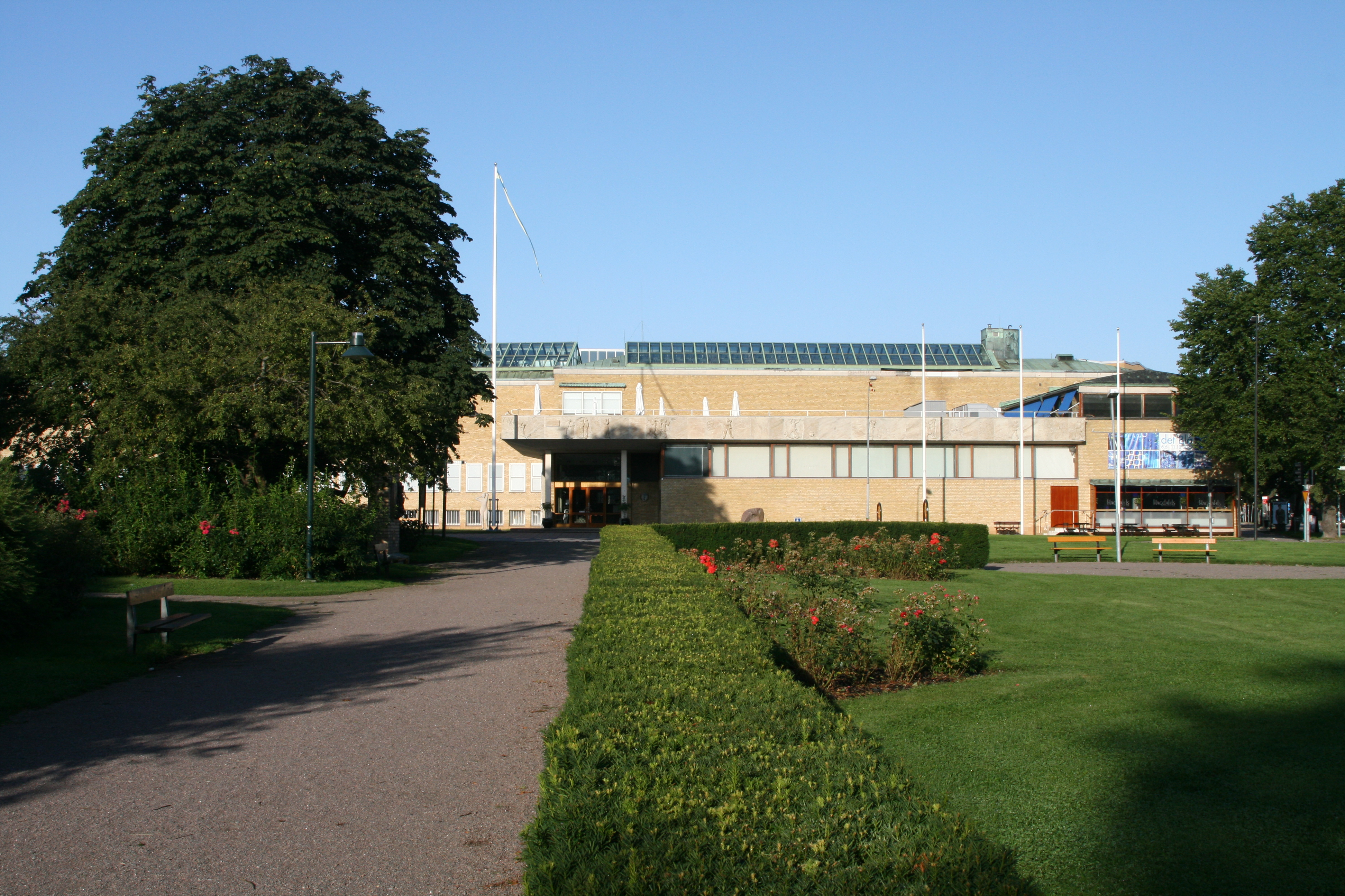 Östergötlands länsmuseum (county museum) in central Linköping, Sweden, main entrance seen from Raoul Wallenbergs plats (park). To the right is the restaurant "Hagdahls kök".